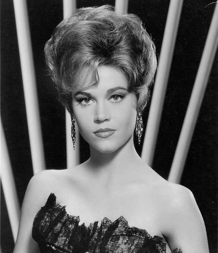 Publicity photo of Jane Fonda for Sunday in New York (1963).